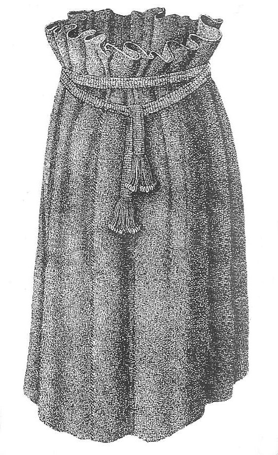 Drawing of a girls skirt made of wool yarn found in a bronze age tomb in Borum Eshoj (Danmark)